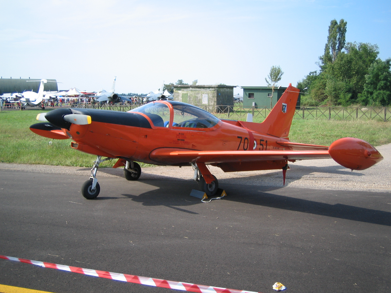 Italian Air Force trainer SIAI-Marchetti SF-260 during "Giornata Azzurra 2005" at Rivolto AFB